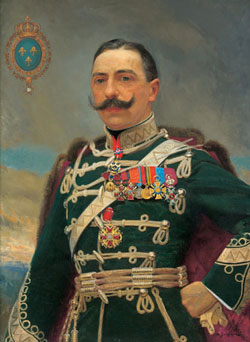 Jaime de Borbón y de Borbón-Parma, called Duke of Madrid.